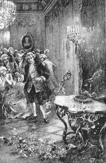 An illustration from Jules Verne's novel "The Secret of William Storitz" (written in 1898, firts published in 1910 after his death with changes made by his son Michel) drawn by George Roux.